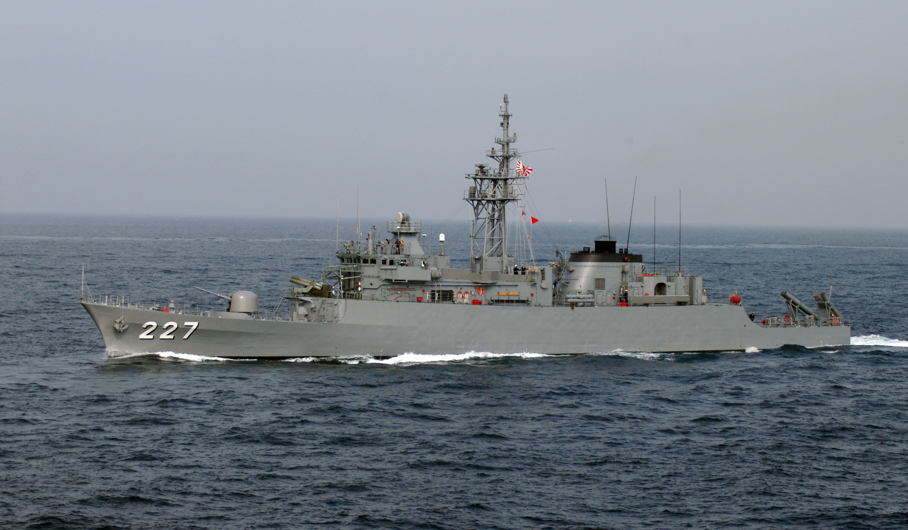 JS Yūbari (DE-227) transits Sagami Bay during the SDF Fleet Review 2006.